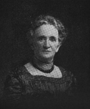 Portrait of Mary Harrod Northend published in Higgins, Charles Arthur (1915). "Mary Harrod Northend: Authority and Writer on Colonial Homes of New England". The assachusetts Magazine. 8 (1): 23–26.